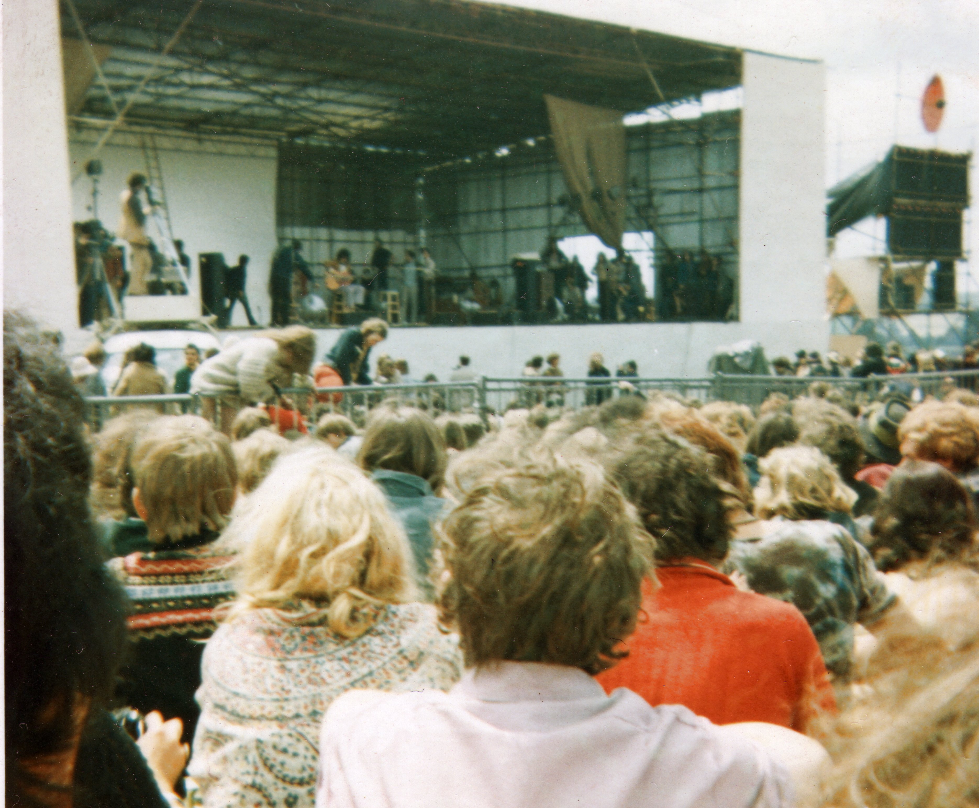 Bath Festival of Blues & Progressive Music at Shepton Mallet, England. 27th & 28th June 1970 Crowd sean and stage, Sunday morning 28th. Start of Donovan's 2 ½ hour unscheduled performance. Although not billed to appear (and as a folk singer he was also of the wrong genre) he volunteer to entertain for free, until the billed groups arrived at the site and where ready to go on. They had been held up by traffic jamming the narrow country lanes to the venue.